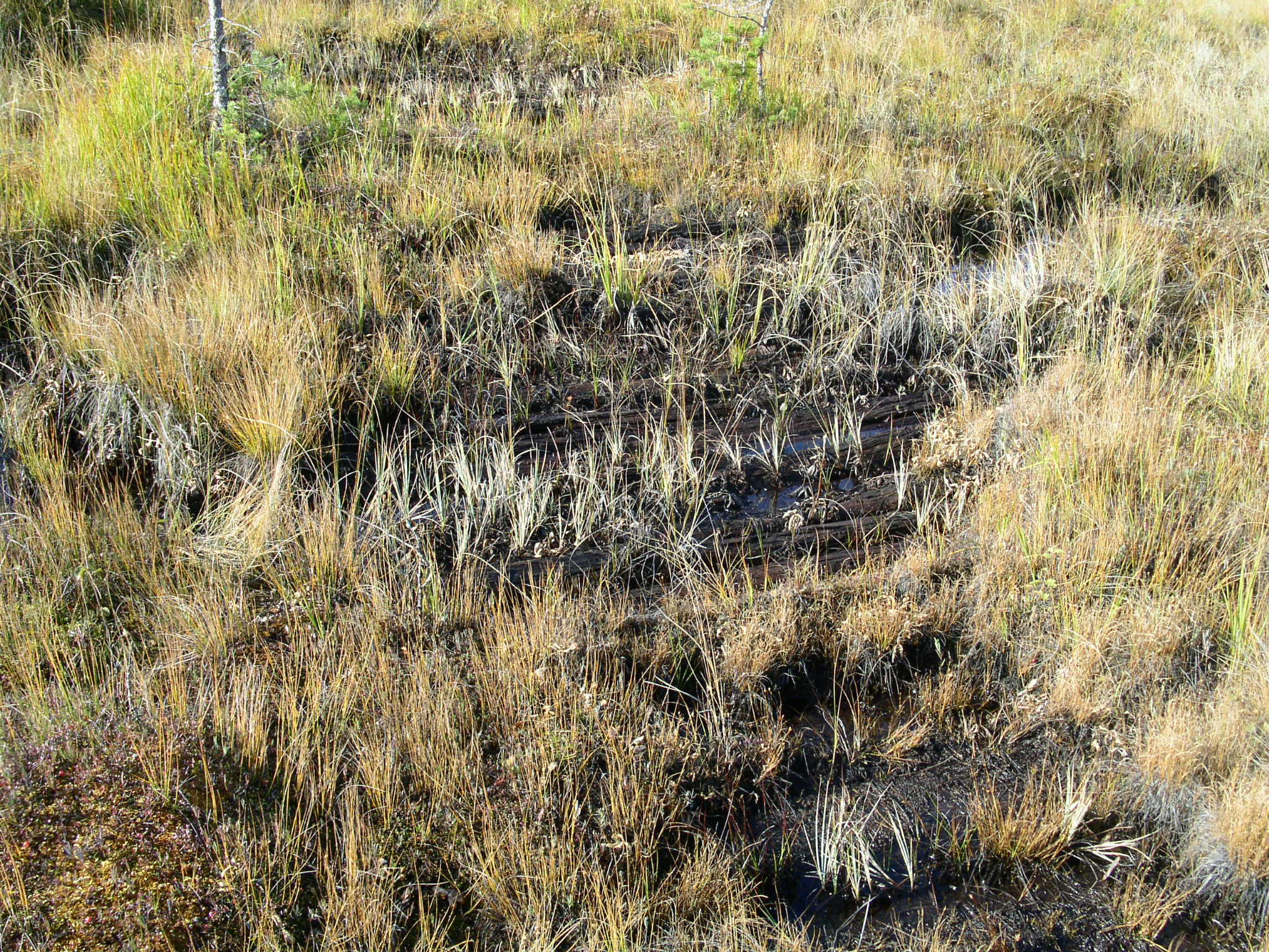 Corduroy road from early 19' century, Sweden.